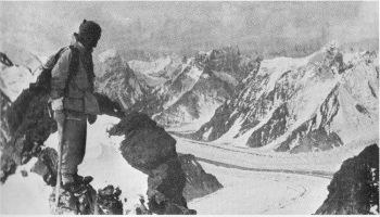 1938 American K2 expedition. First published in India in the Himalayan Journal in 1939 and not previously published.